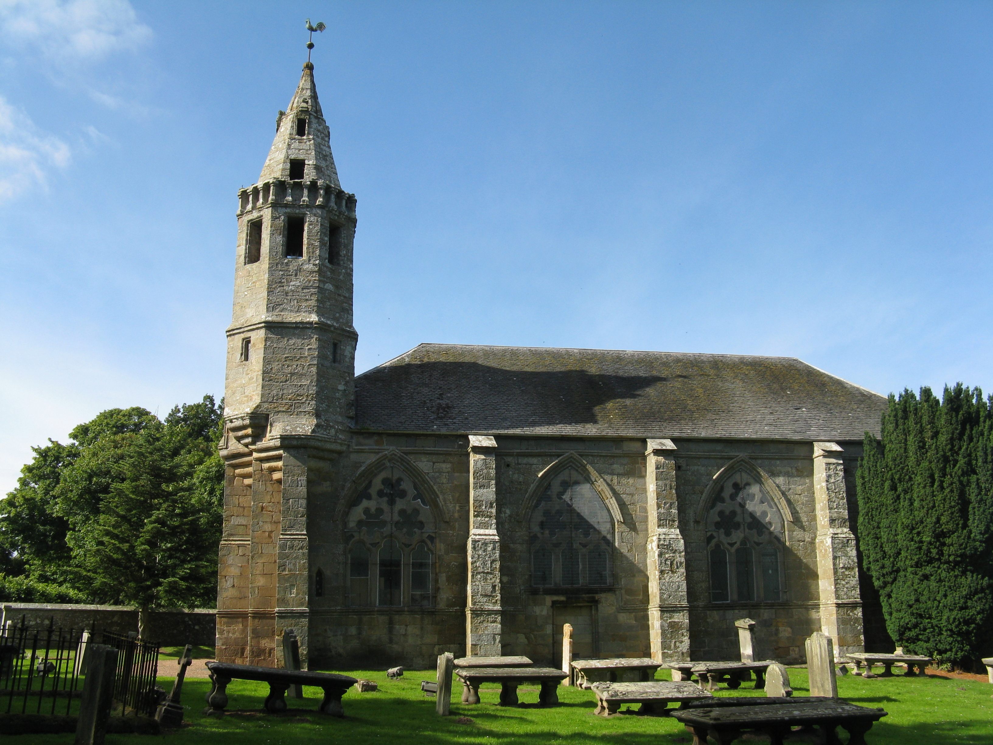 Dairsie Old Church - St Mary's